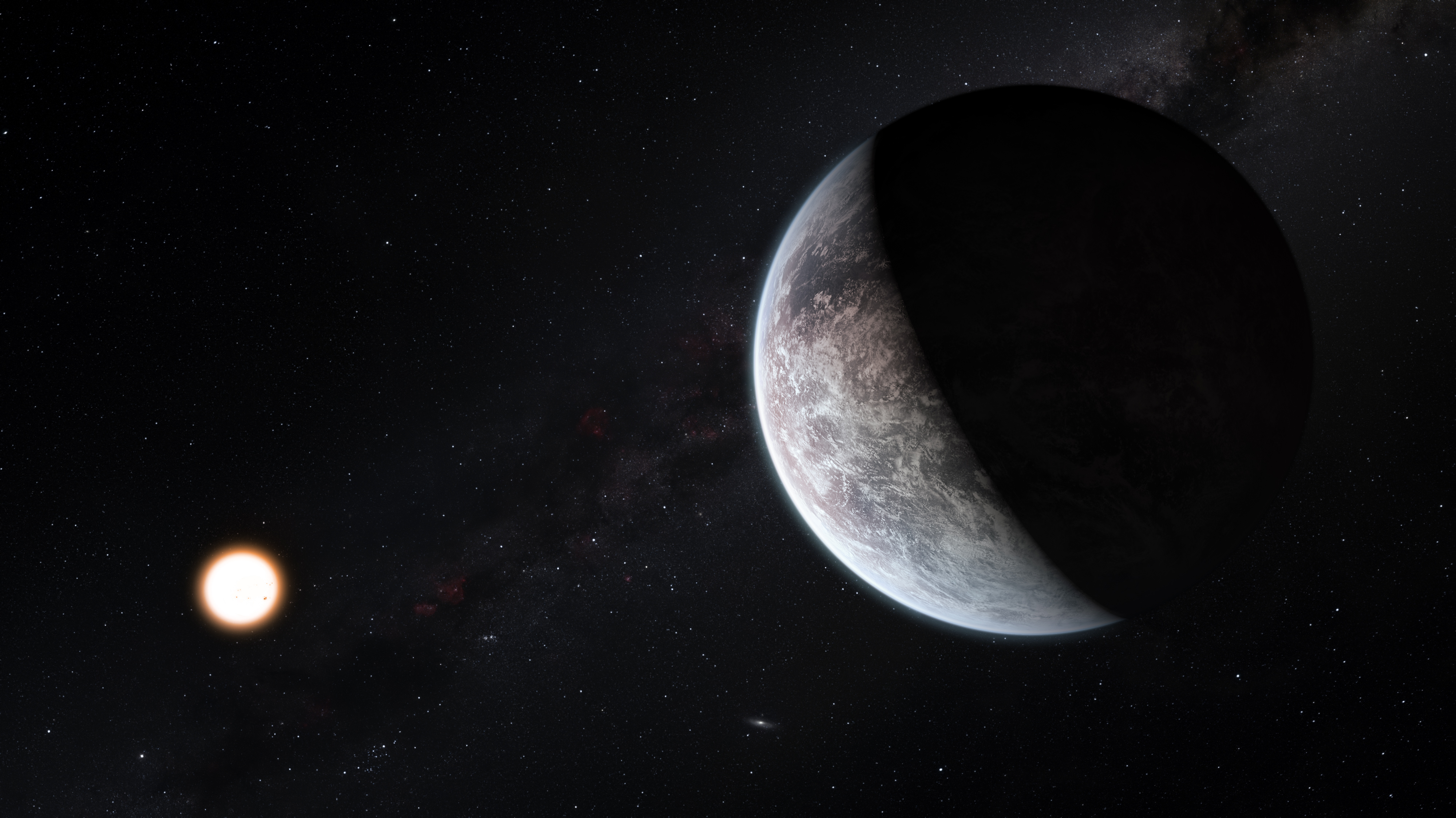 This artist’s impression shows the planet orbiting the Sun-like star HD 85512 in the southern constellation of Vela (The Sail). This planet is one of sixteen super-Earths discovered by the HARPS instrument on the 3.6-metre telescope at ESO’s La Silla Observatory. This planet is about 3.6 times as massive as the Earth lis at the edge of the habitable zone around the star, where liquid water, and perhaps even life, could potentially exist